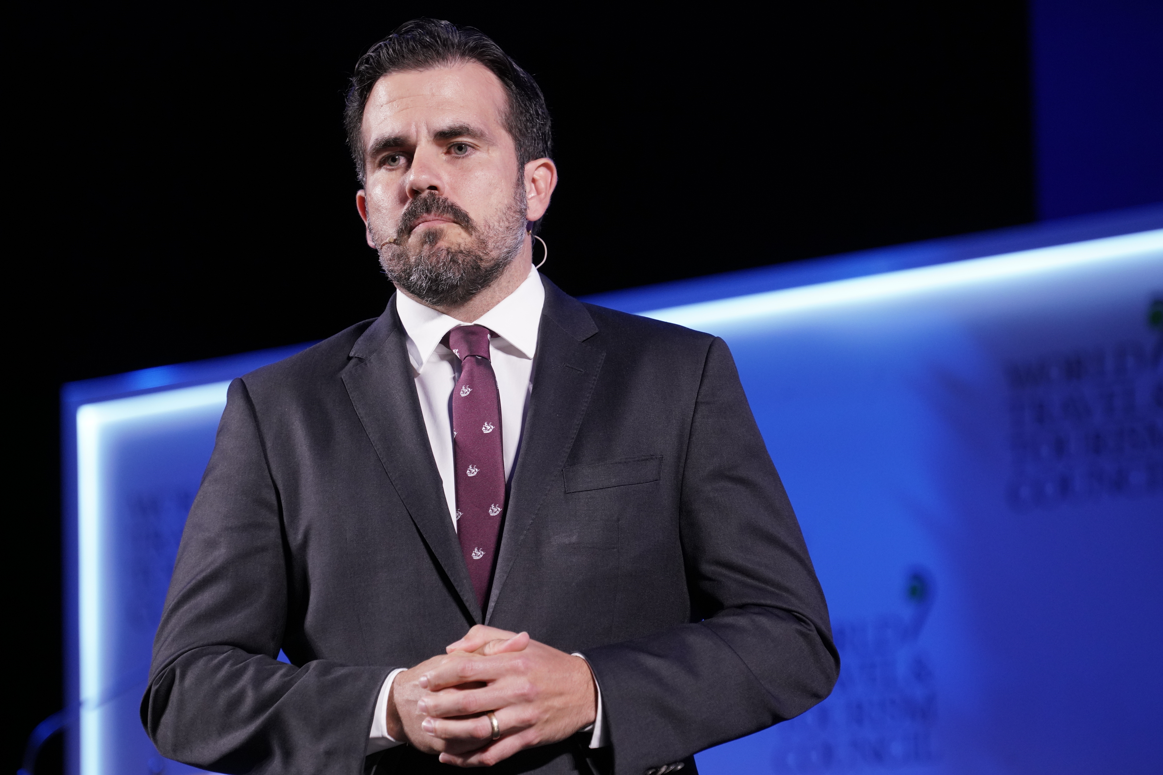 Global Summit 2019 - Session Five